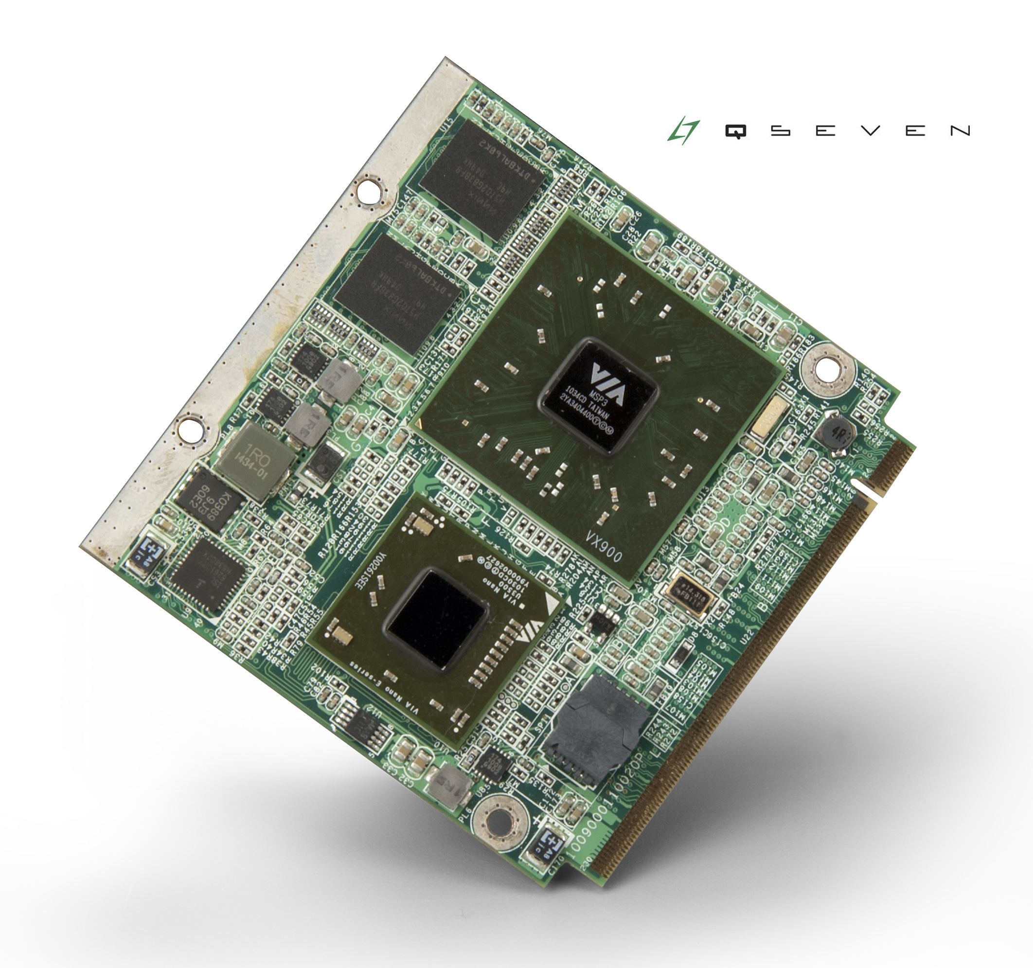 With advantages of its compact size, integrated thermal solution and low cost connectors, VIA QSeven™ is the ideal building block for various low power and handheld applications. Seen here from an angle.